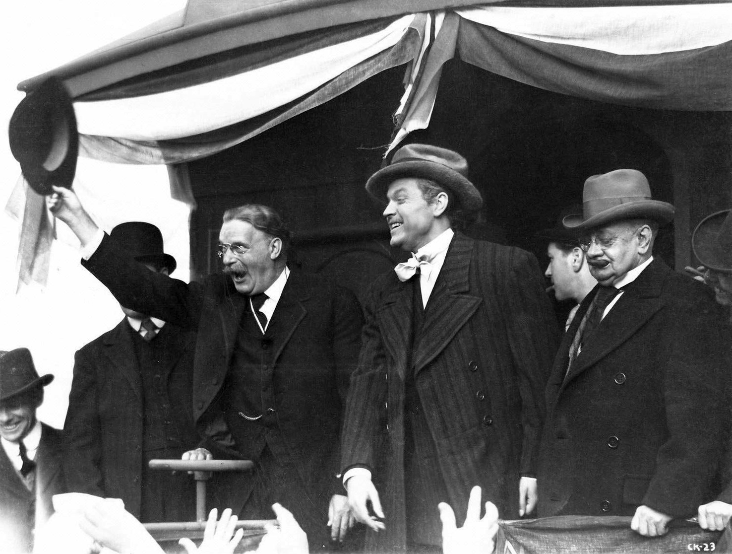 Promotional still for the 1941 film, Citizen Kane Image is marked CK-23 at lower right